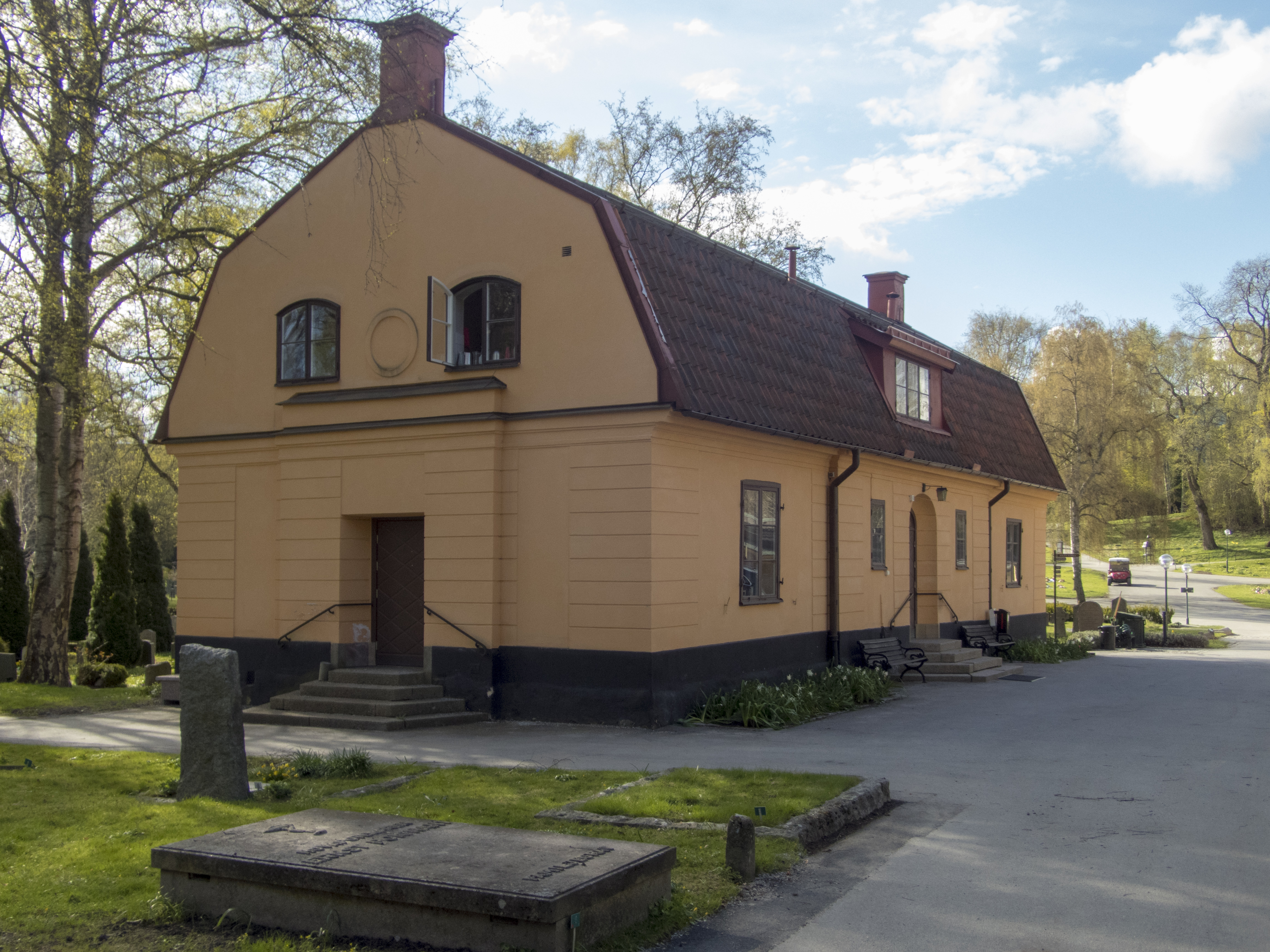 Kaplansgården, Solna kyrkby